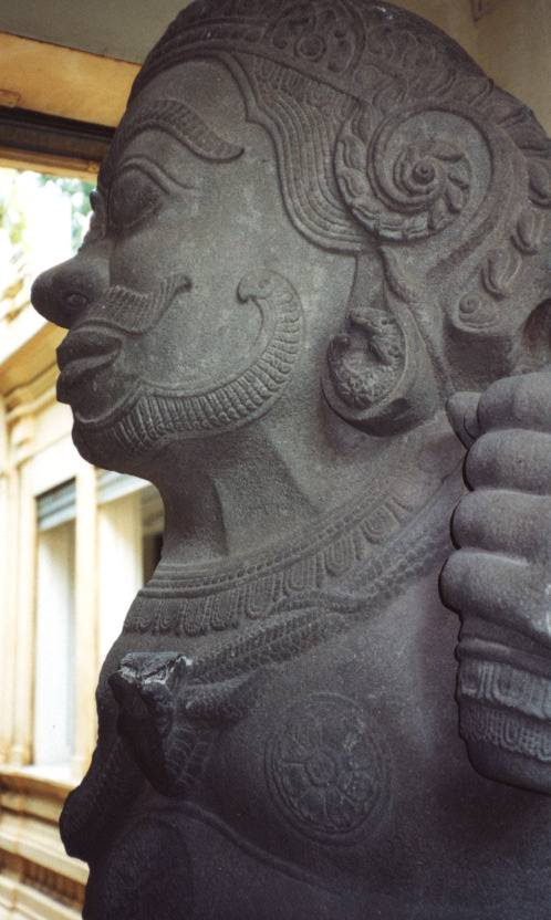 Cham Statue from Cham Museum in Da Nang, Vietnam by Shermozle